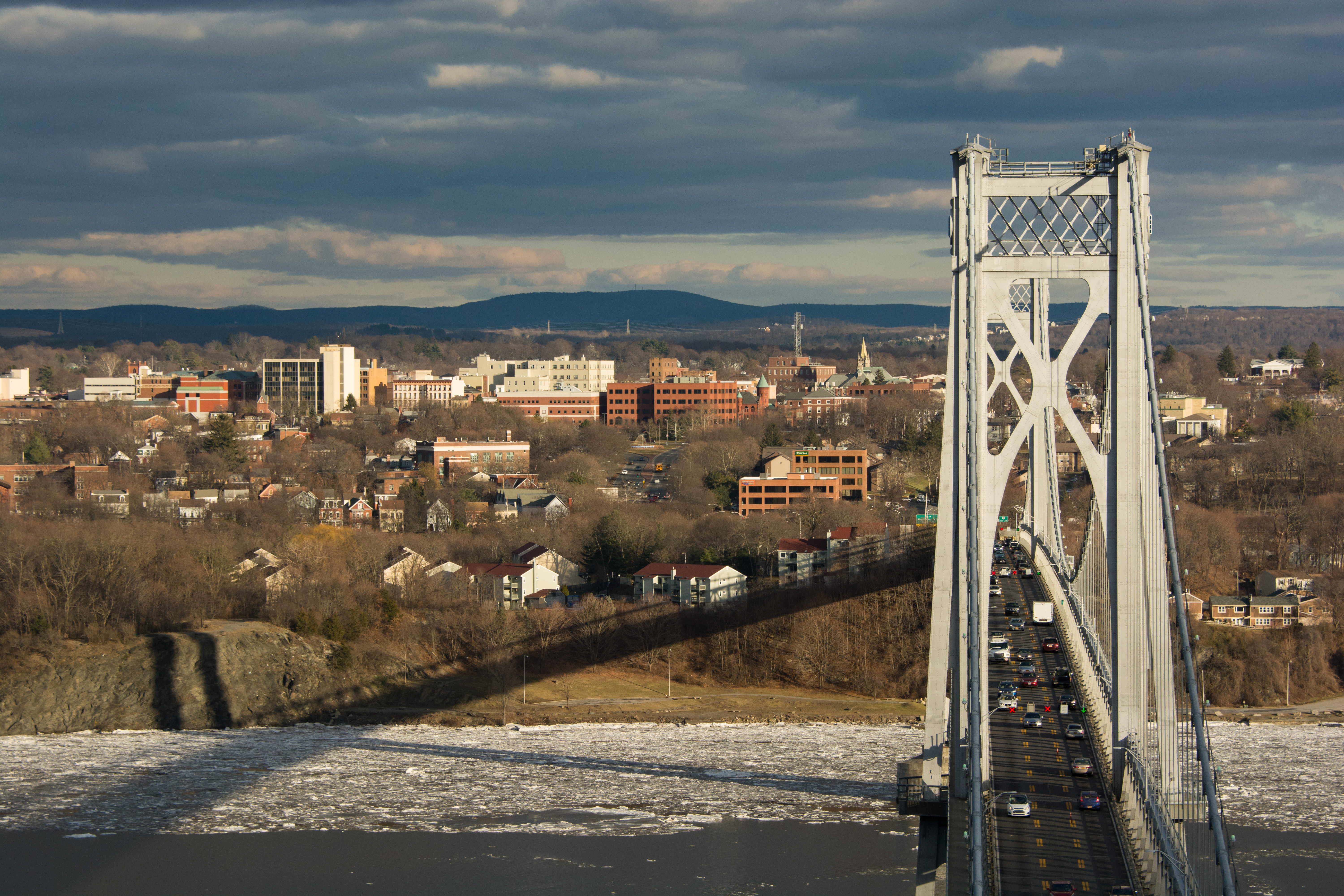 View of Poughkeepsie, New York and the Mid-Hudson Bridge from a scenic overlook in Franny Reese State Park in Highland, New York.